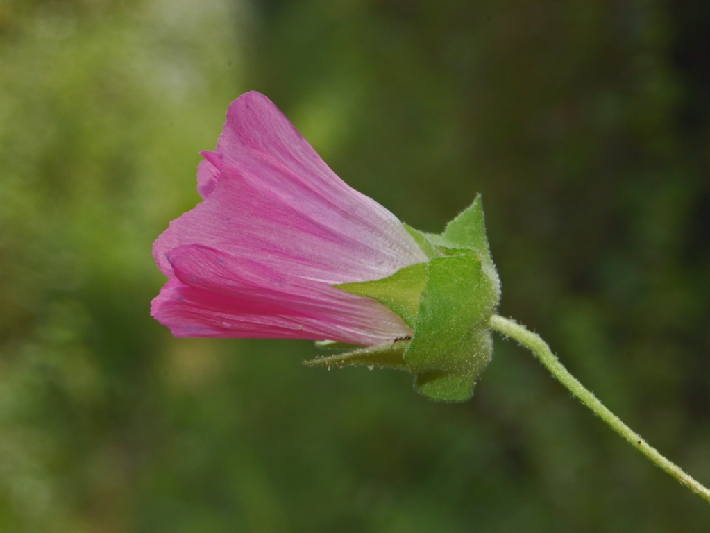 Lavatera punctata - Genova, Italy